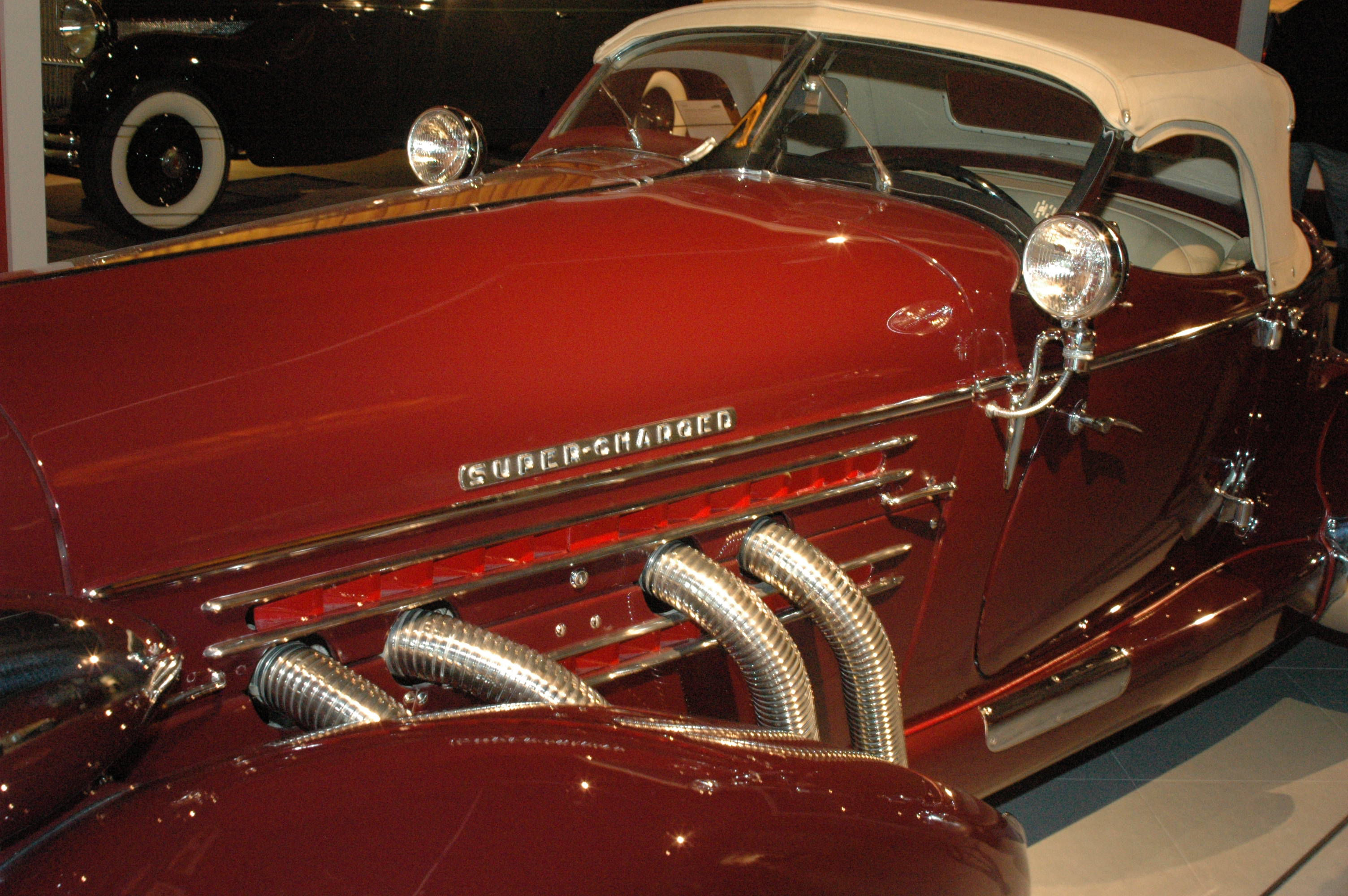 Louman Museum - unedited version. Please also check out my Facebook page